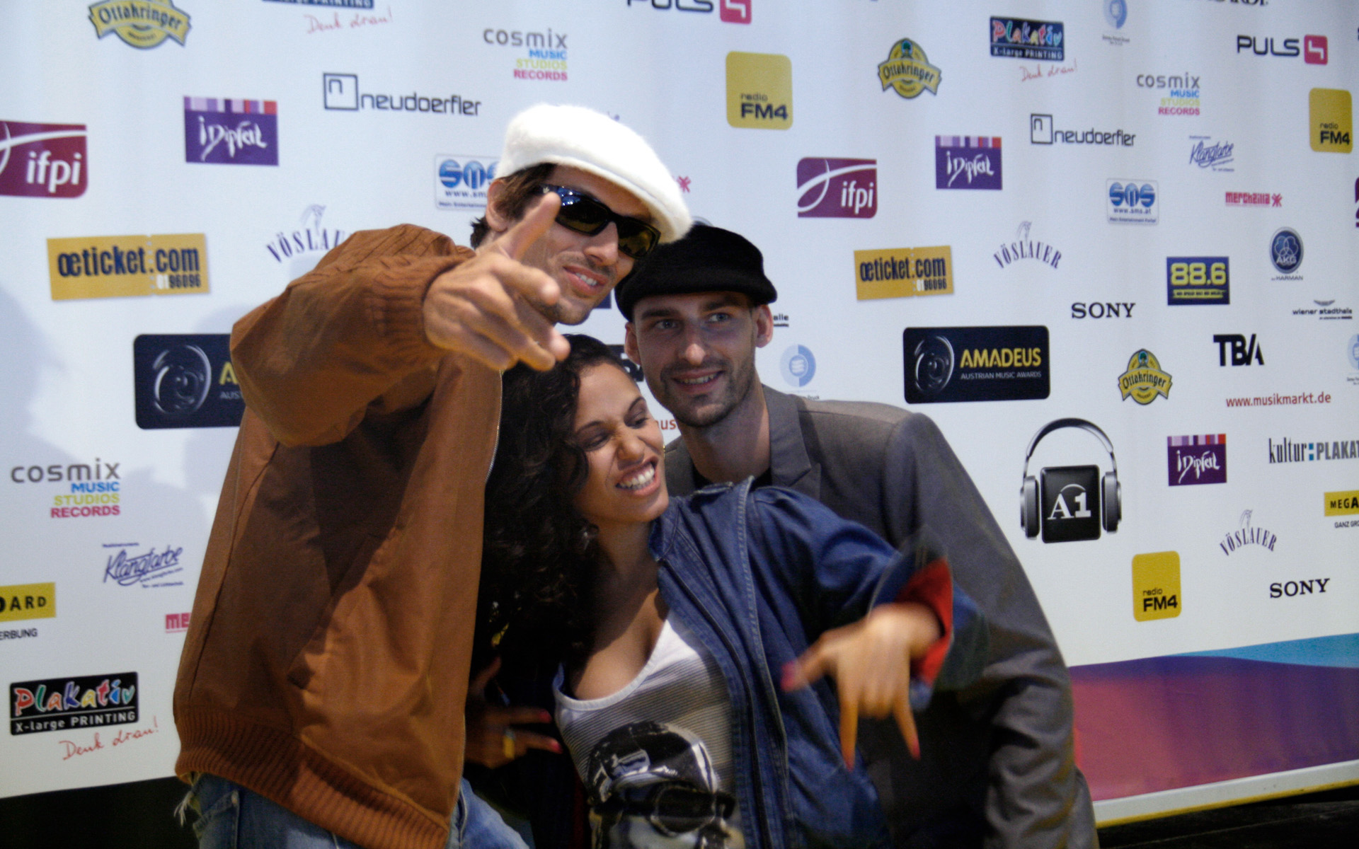 Skero and Joyce Muniz at the Amadeus Austrian Music Award 2010 (Wiener Stadthalle, Vienna, Austria)